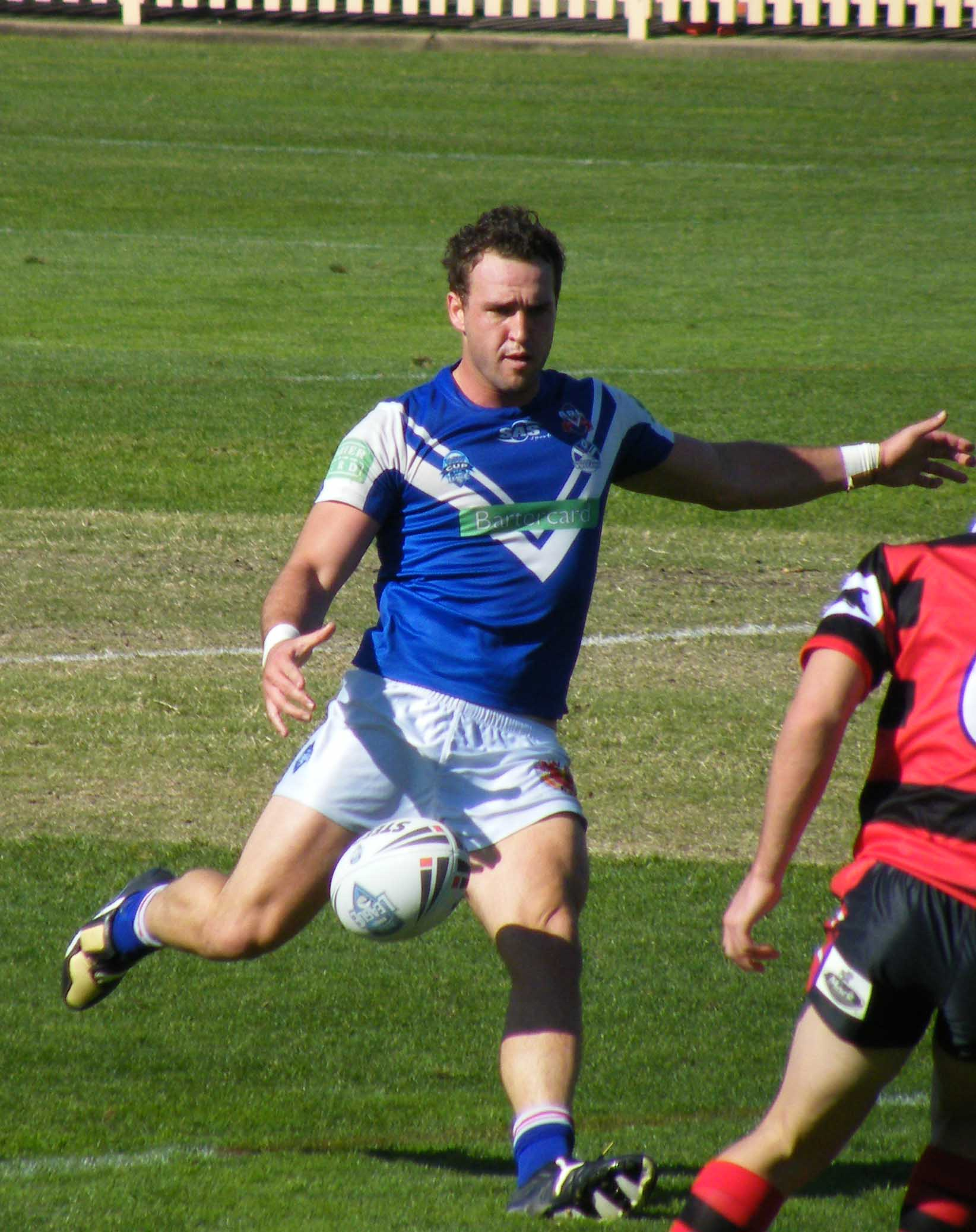 Daniel O'Regan of the Auckland Vulcans